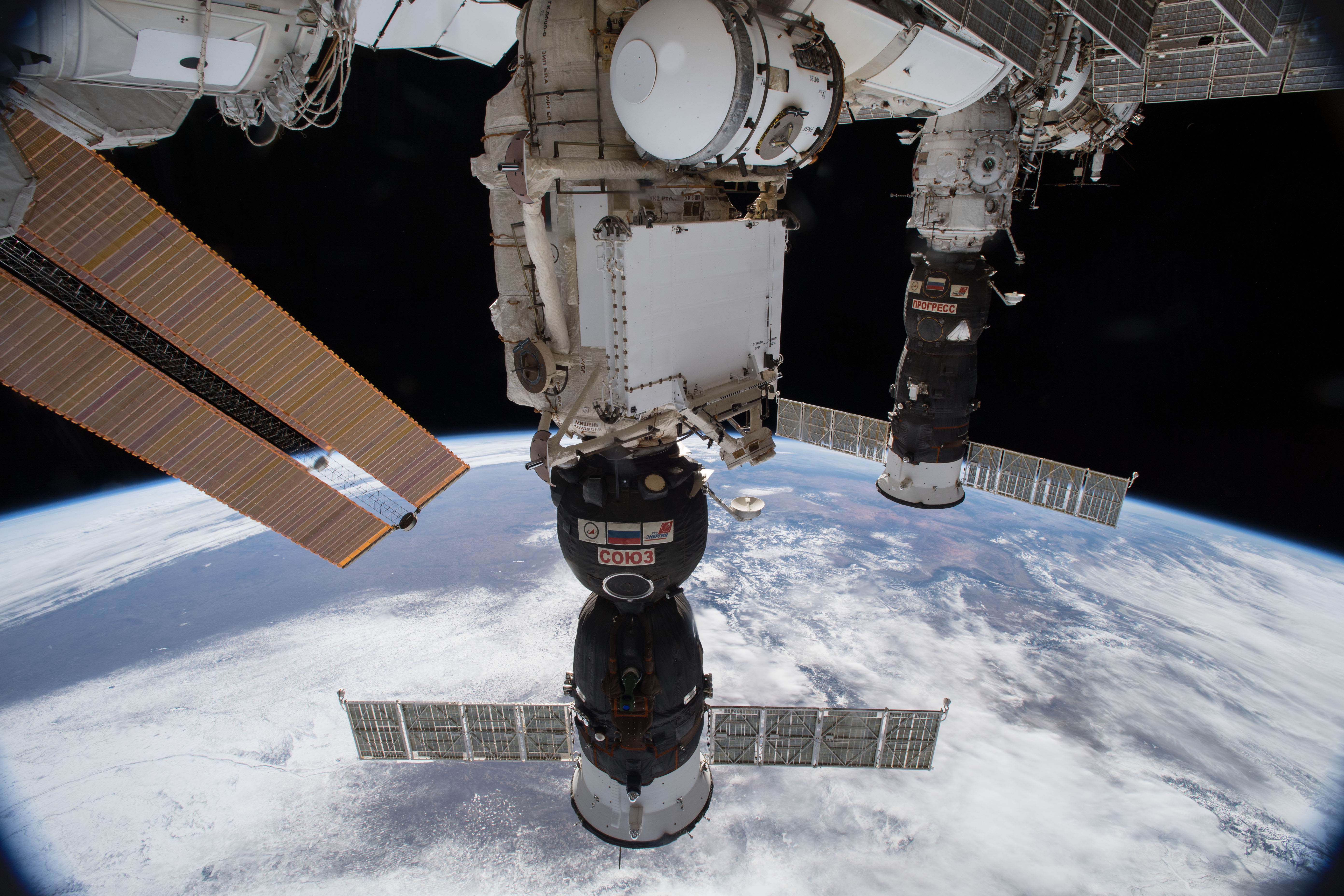 Russia's Soyuz MS-07 crew ship (foreground) and Progress 68 cargo craft are seen docked to the Earth-facing ports of the International Space Station's Russian segment. The Soyuz is docked to the Rassvet module and the Progress is attached to the Pirs docking compartment. The space station was orbiting 253 miles above the northern United States when this photograph was taken by an Expedition 54 crew member.